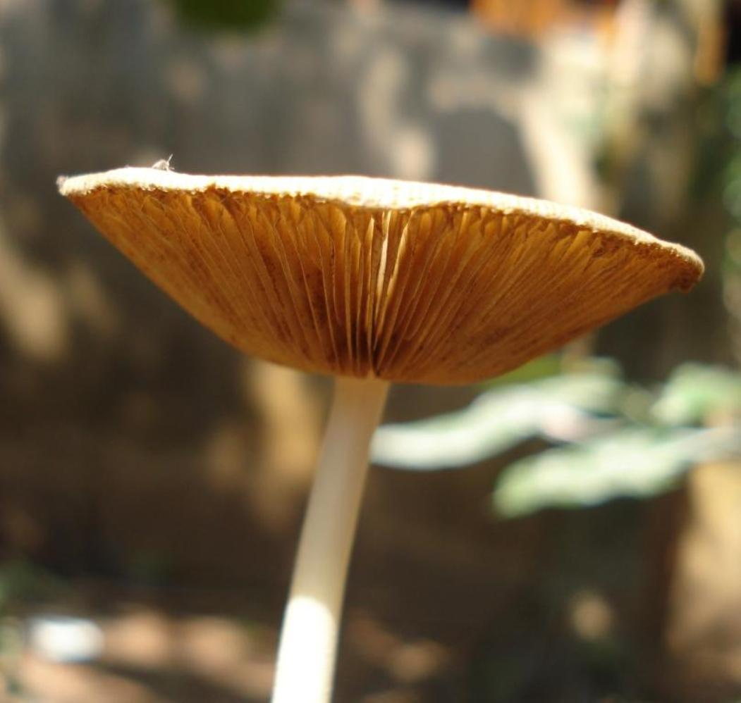 Mushroom